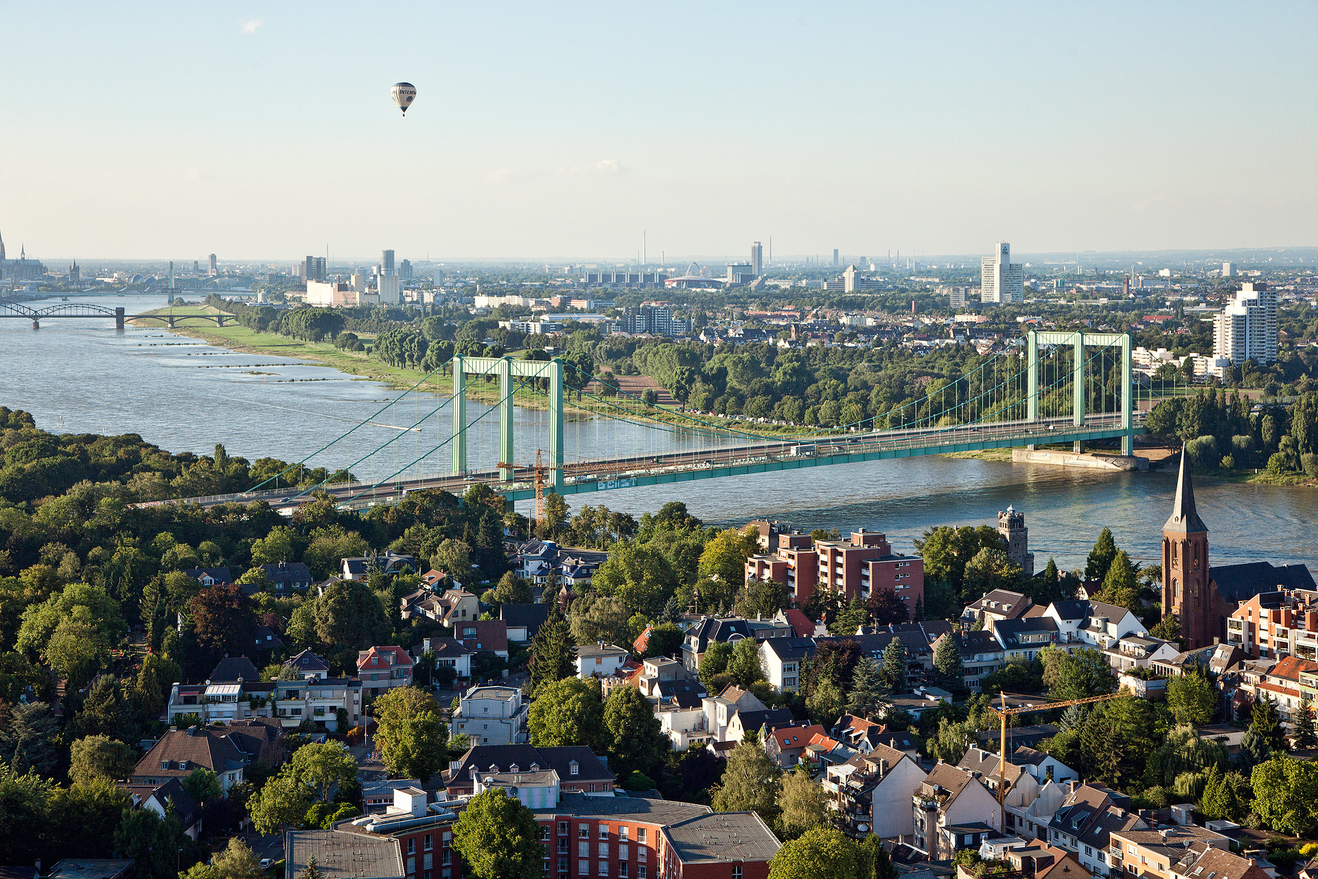 Aerial Photography of the "Rodenkirchener Brücke" bridge over the river Rhine in Cologne, Germany